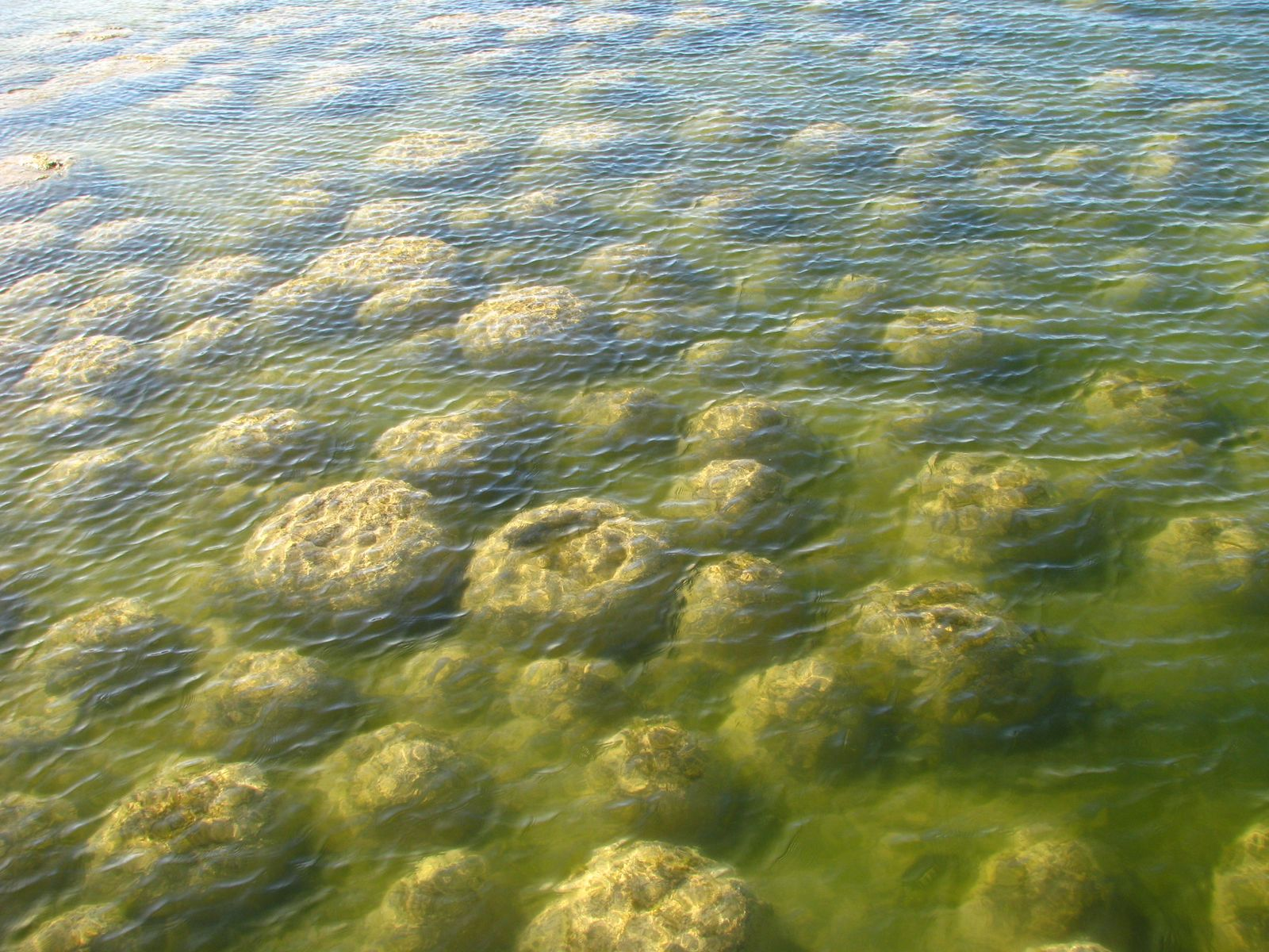 Stromatolites growing her in Yalgorup national park in Australia (there are also other stromatolithes in Shark Bay and in Western Australia. Stromatolites are "attached, lithified "sedimentary" growth structures, accretionary away from a point or limited surface of initiation." (Low tide)